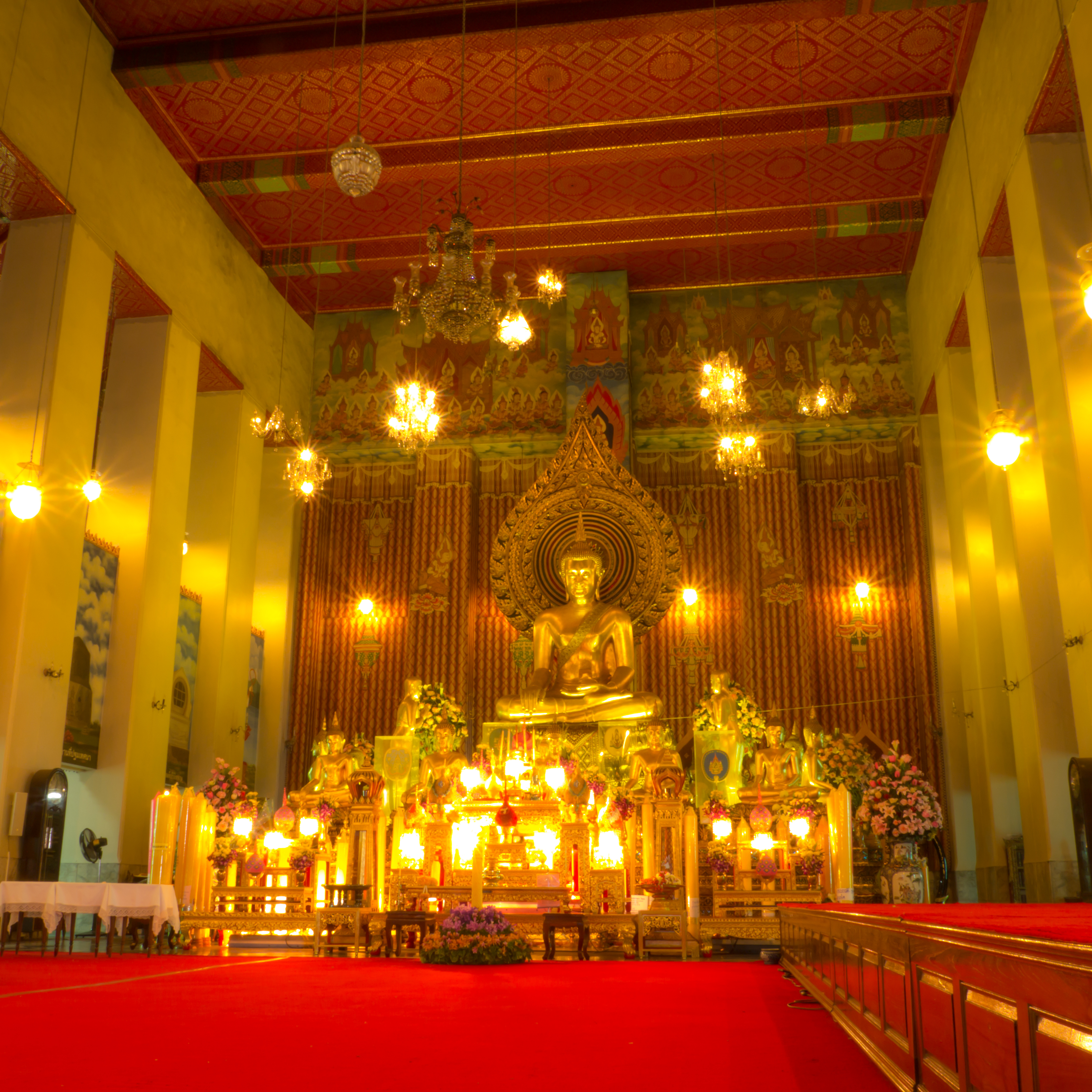 The principle Buddha image in the ubosot (main hall), Wat Chana Songkhram Ratchaworamahawihan, Chana Songkhram, Phra Nakhon, Bangkok